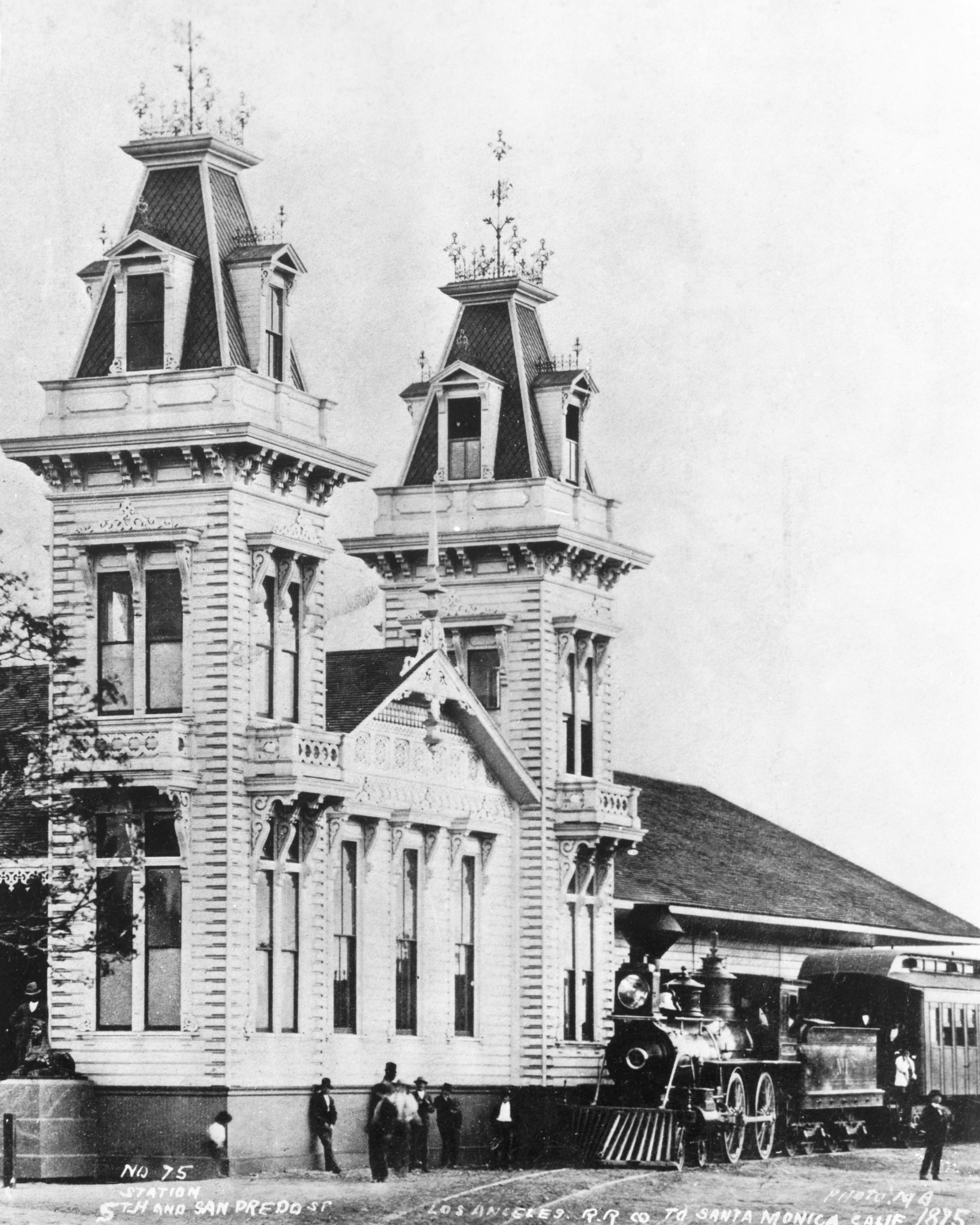 Steam locomotive in front of the Los Angeles and Independence Rail Road Terminal at Fifth Street and San Pedro Street, Los Angeles, 1875 1875 exterior photograph of the Los Angeles and Independence Railroad depot at San Pedro Street and Fifth Street in Downtown Los Angeles. A Victorian style wooden building with two, three-story square towers, crowned with wrought iron decoration, dormer windows and small decorative balconies. This building was destroyed by fire in November, 1888. A sphinx statue stands at right of several doors at the head of a wide set of stairs on the left side of the building. A group of about six people are gathered on the platform near the end of a rail car (one is on the car) on the right side of the building. The railroad line, which extended to Santa Monica, was taken over by Southern Pacific in 1877 and was converted to electric in 1908. It was then leased to Pacific Electric as the "Santa Monica Air Line" until 1953. The railroad line was then used by Southern Pacific for freight only until 1989 and sold to the Los Angeles County Metropolitan Transportation Authority in 1990. The portion of the original line West of Flower Street is now used for the Los Angeles Metro Expo light rail line. Photo text: No. 75 STATION 5TH AND SAN PEDRO ST LOS ANGELES R.R. CO TO SANTA MONICA, CALIF. 1875